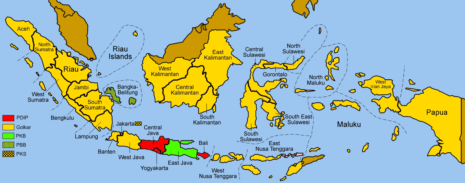 Map showing parties with the largest share in each province in the 2004 Indonesian legislative election. Adapted from Indonesia provinces english.png created by User:Golbez